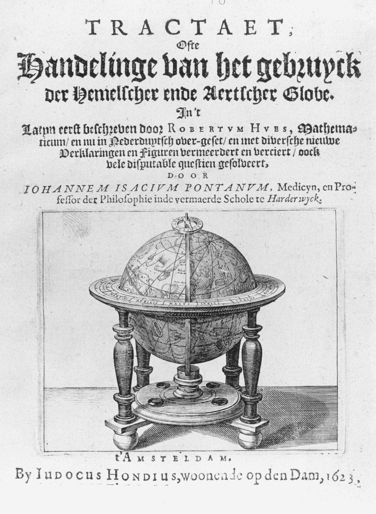 The title page of Robert Hues (1623) Tractaet ofte Handelinge van het gebruyck der Hemelscher ende Aertscher Globe: In't Latyn eerst beschreven door Robertvm Hves, Mathematicum / en nu in Nederduytsch over-geset en met diversche nieuwe Verklaringen en Figuren vermeerdert en verciert / oock vele disputable questien gesolveert, door Iohannem Isacivm Pontanvm, Medicyn, en Professor der Philosophie inde vermaerde Schole te Harderwyck, Amsterdam: Iudocus Hondius, woonende op den Dam